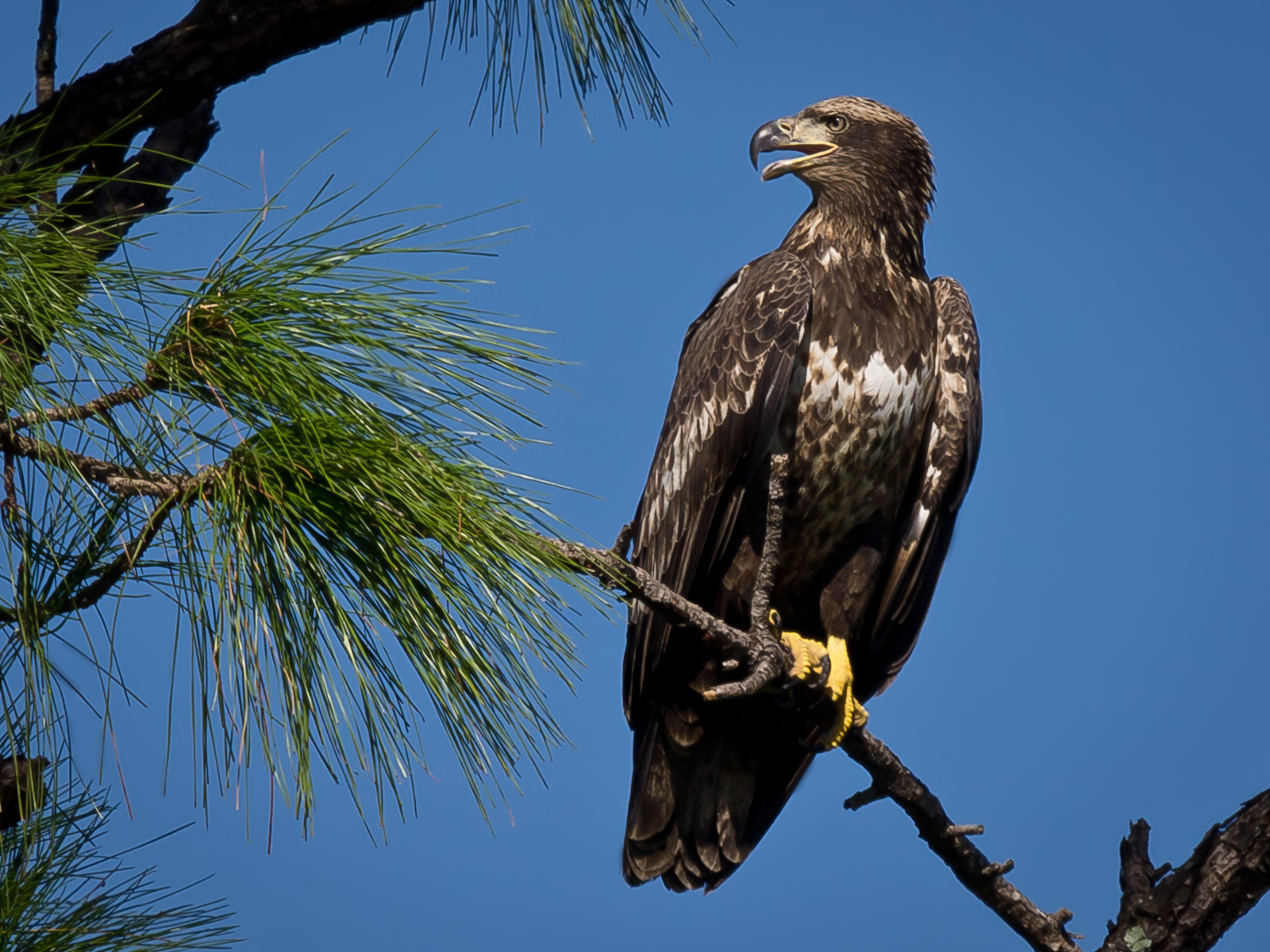 An immature Bald Eagle (Haliaeetus leucocephalus) perched on a branch. Photo taken with an Olympus E-5 in Sarasota County, FL, USA.Cropping and post-processing performed with Adobe Lightroom.